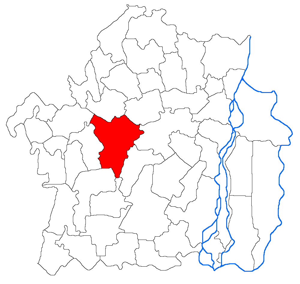 Limits of Commune of Ianca in Braila County